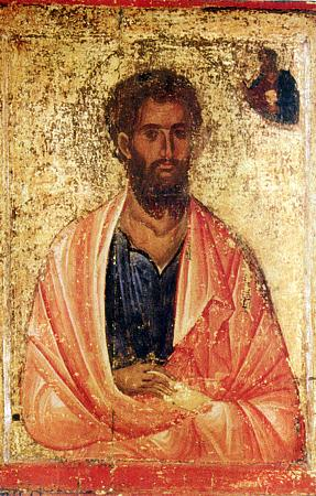 Icon of James, the Just, brother of Jesus